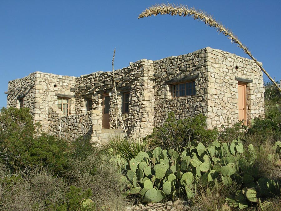 Residence #7 within The Caverns Historic District — in the central developed area of Carlsbad Caverns National Park, Eddy County, New Mexico. The circa early 1930s Pueblo Revival style adobe residence is on the National Register of Historic Places in Carlsbad Caverns National Park.